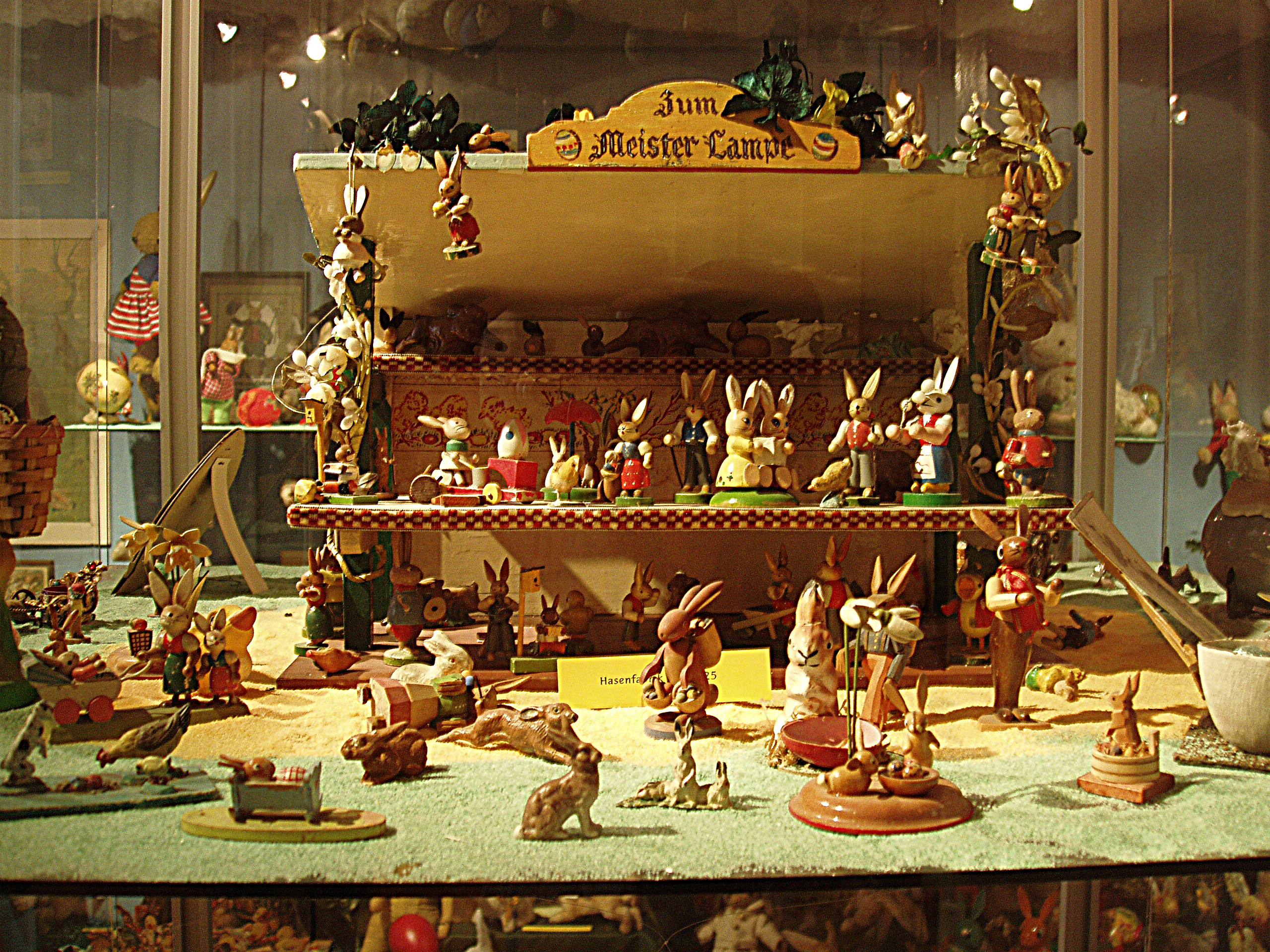 Easter Bunny museum, at the Center for Extraordinary Museums (closed down in 2005) (ZAM - Zentrum für aussergewöhnliche Museen). Published in the online Schmap Munich Guide , second edition.